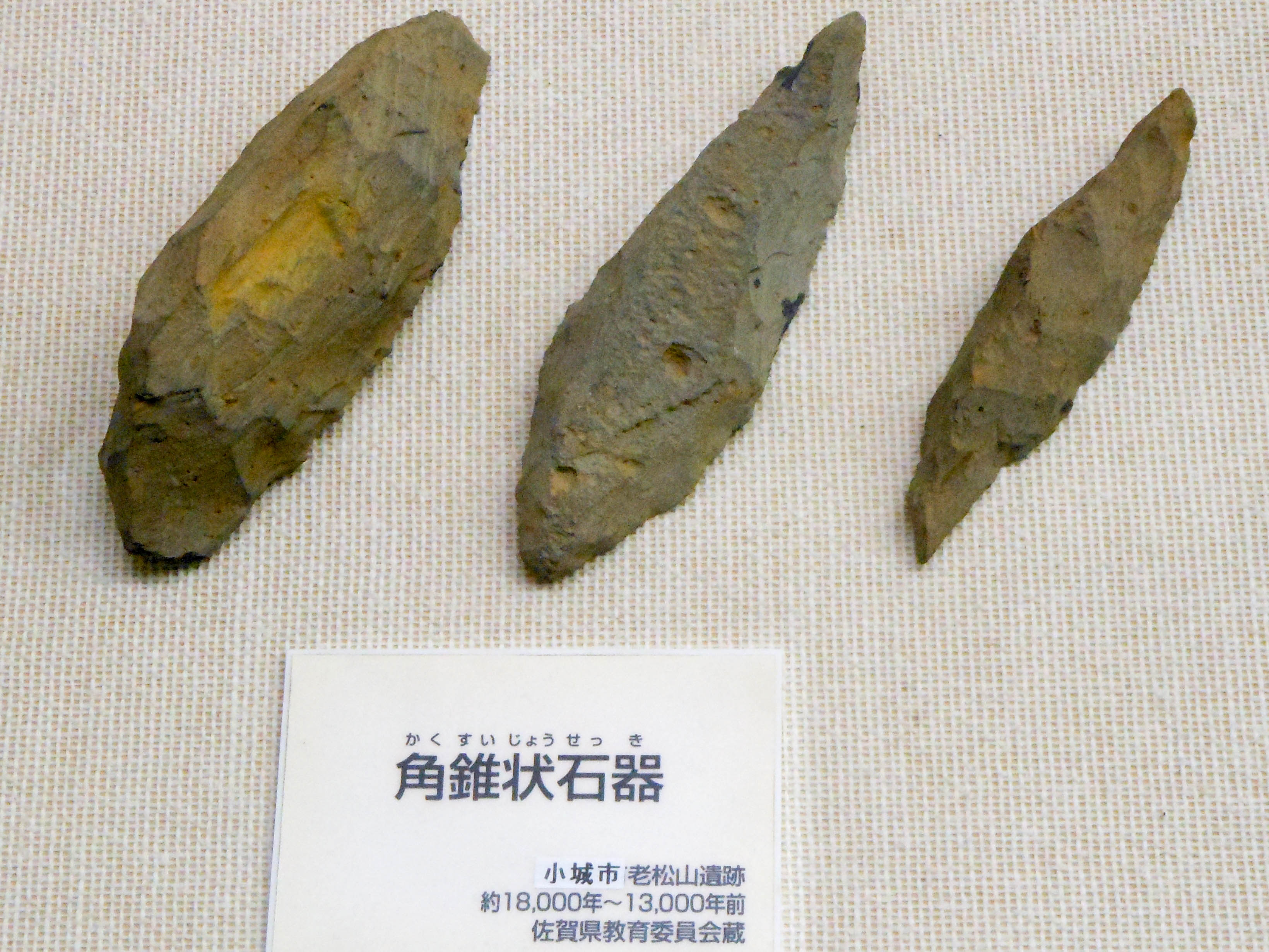 Pyramid shaped stone tools, excavated in Oimatsuyama site in Ogi city, Saga, Kyushu, Japan. It made in 18,000-13,000 years ago(late Japanese Paleolothinc pereod - early Jōmon pereod). It displayed in Saga Prefectural Museum.